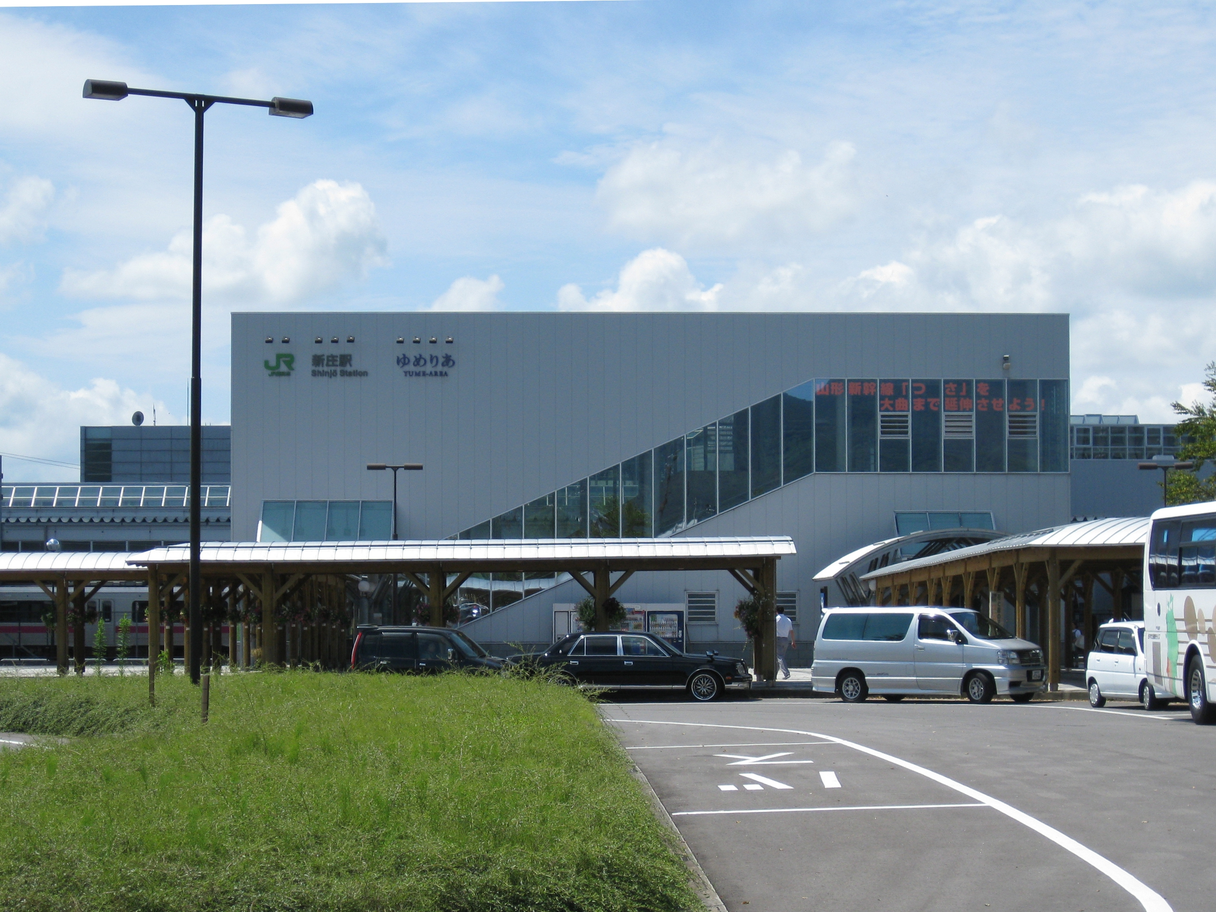 Exterior of Shinjo Station. Shinjo, Yamagata, Japan.